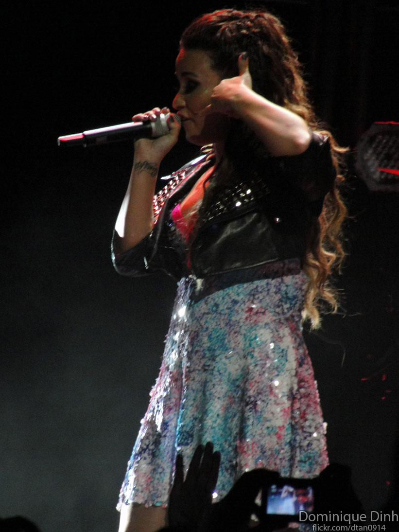 Demi Lovato performing "Get Back" at Club Nokia in Los Angeles